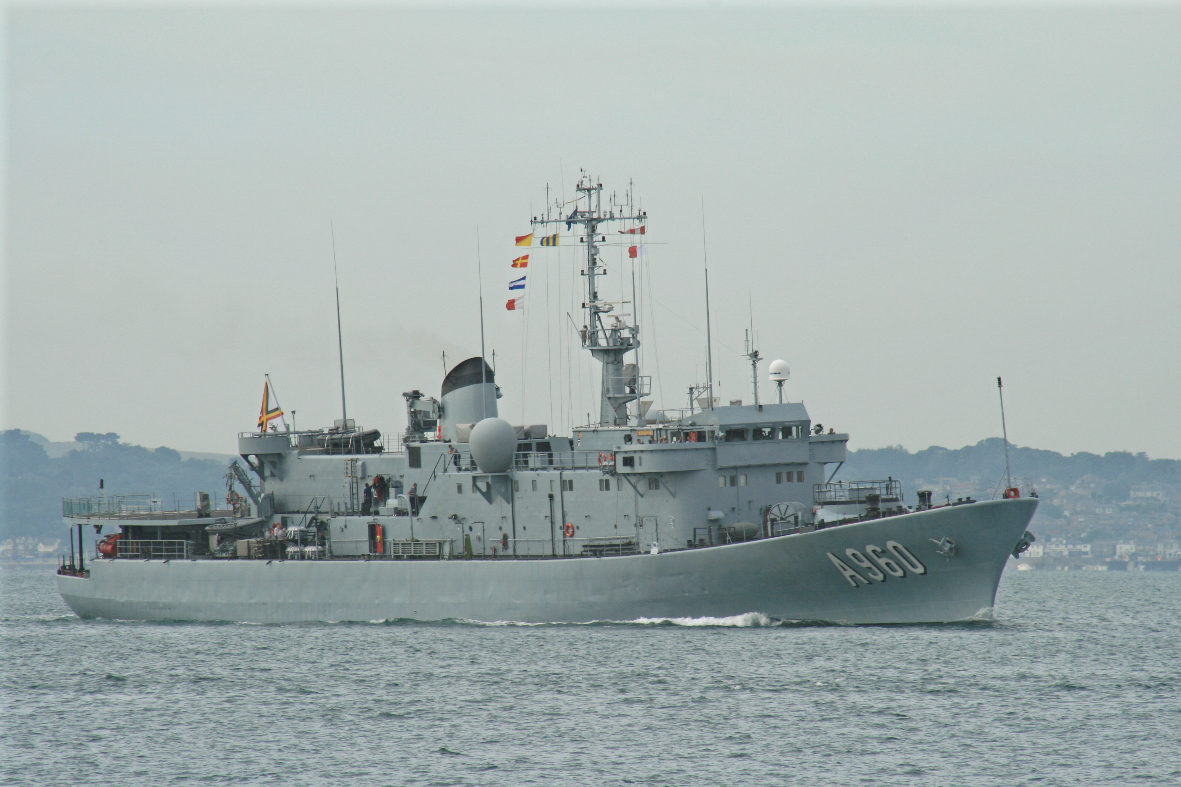 The Belgian auxiliary warship BNS Godetia at Spithead, inbound to Portsmouth Naval Base on 09 July 2010 in company with Belgian minesweepers BNS Primula and BNS Bellis. Image uploaded by me User:George.Hutchinson from a photograph taken by and supplied by Brian Burnell. The photograph should be attributed to Brian Burnell in this format. Wikipedia editors are reminded that the copyright remains with the photographer, and that the terms of the Creative Commons Attribution-ShareAlike 3.0 Unported Licence apply to Wikipedia editors also, as they do to other reusers of this image. Non-Wikipedia users are requested to advise Brian Burnell of its use other than on Wikipedia.